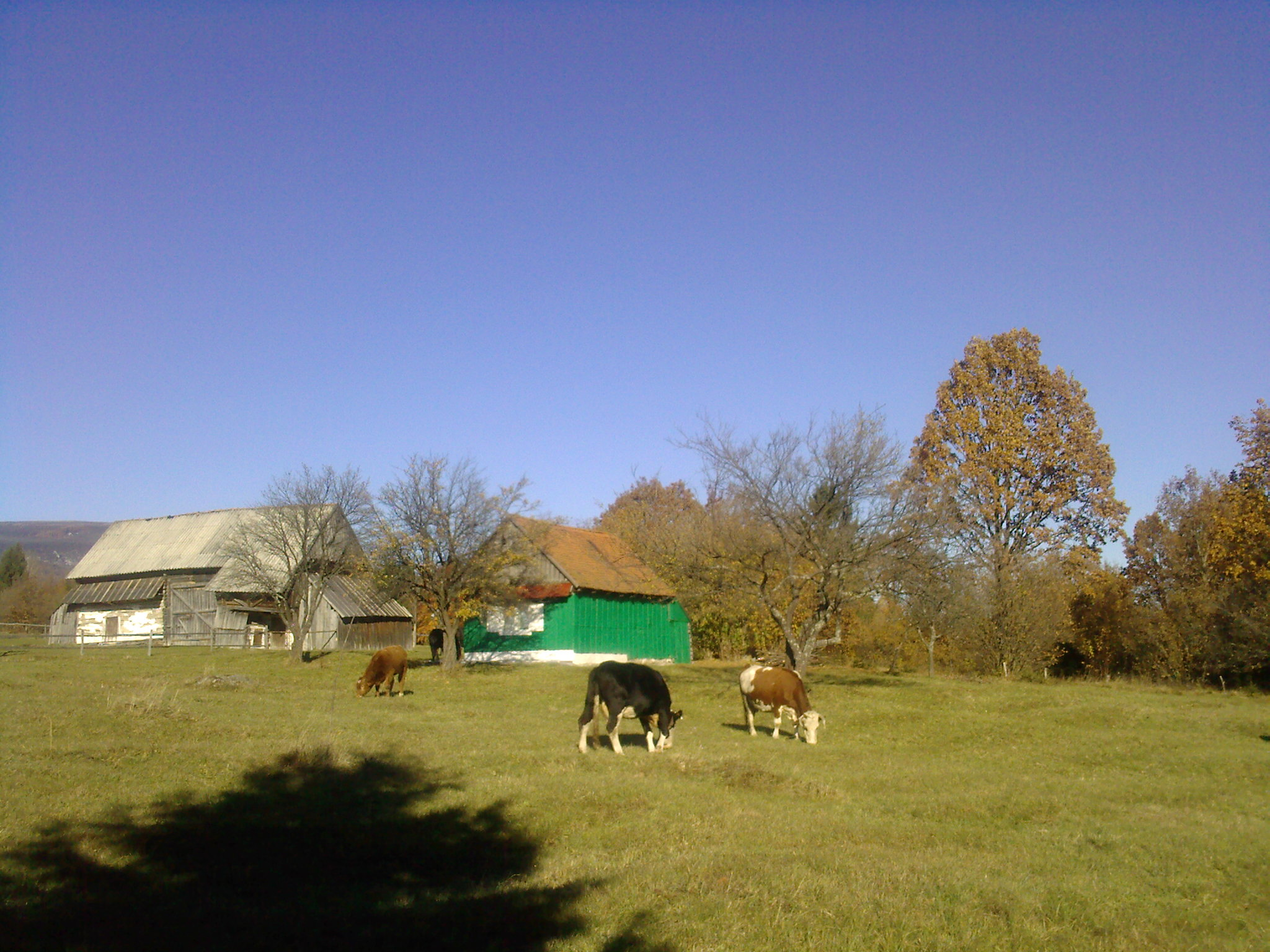 View from village of Lueta, Harghita County, Romania